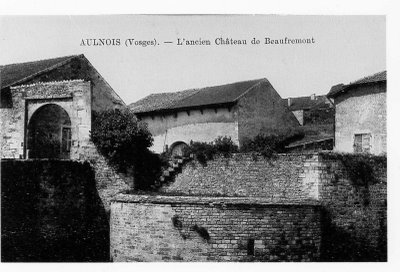 Castle of Beaufremont